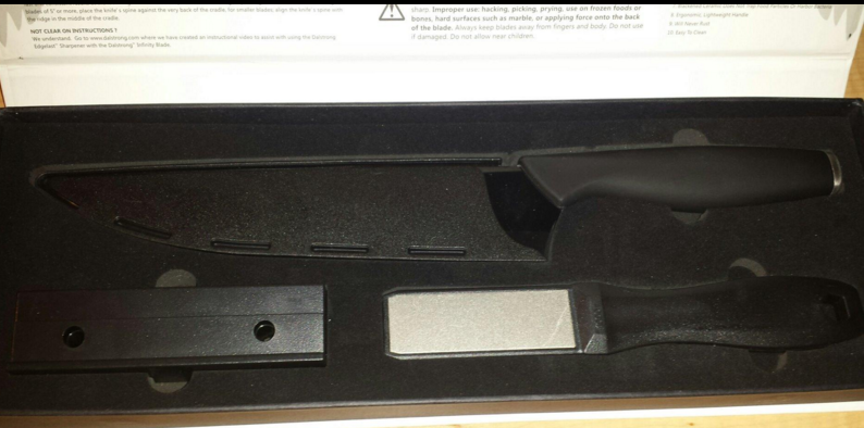 Diamond Dust Sharpener Included with Ceramic Knife. (Dalstrong Infinity Blade Collection Set).